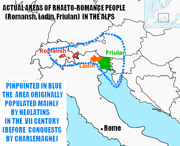 Map of Rhaeto-romance languages, showing the actual areas (with pinpointed the areas around the year 800 AD).The map is copied from an original map on Commons (File:Rhaeto-Romance languages.svg).